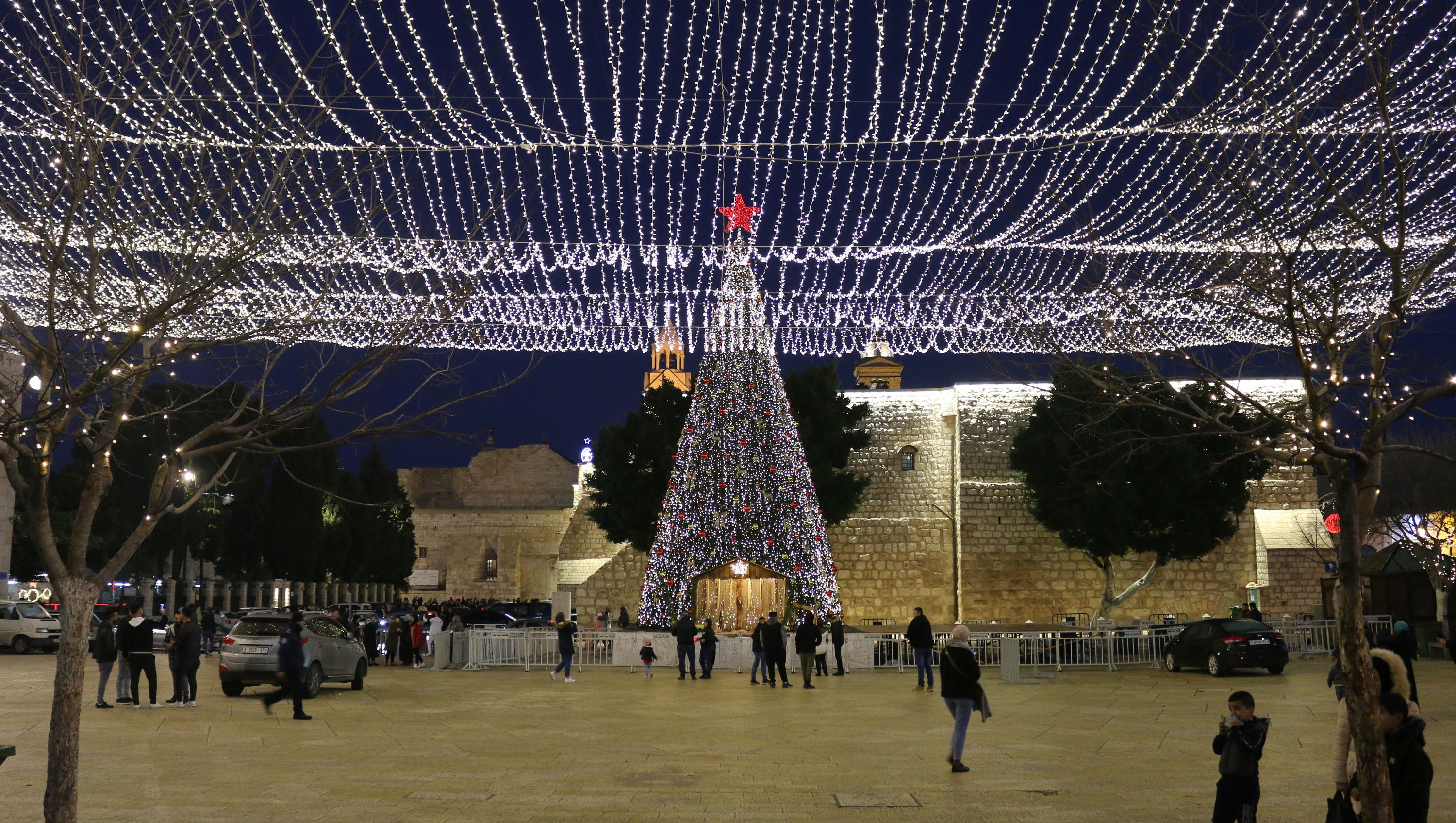 Bethlehem, Palestine - January 2020 - Photo by Pejman Akbarzadeh / Persian Dutch Network